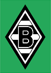 Logo for Borussia Mönchengladbach (1970–1999)